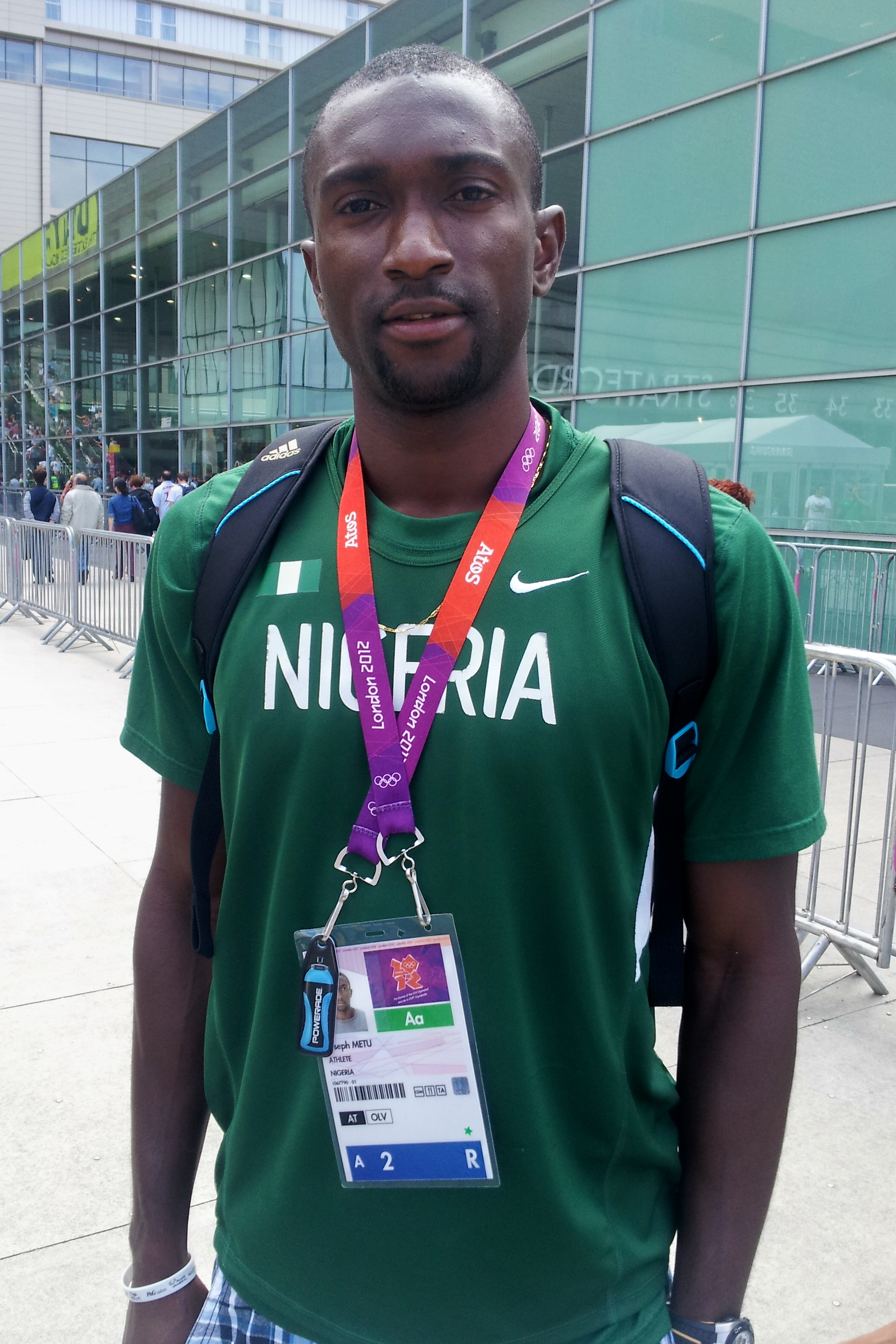 Nigerian 100m sprinter Joseph Obinna Metu, taken at The London 2012 Summer Olympic Games